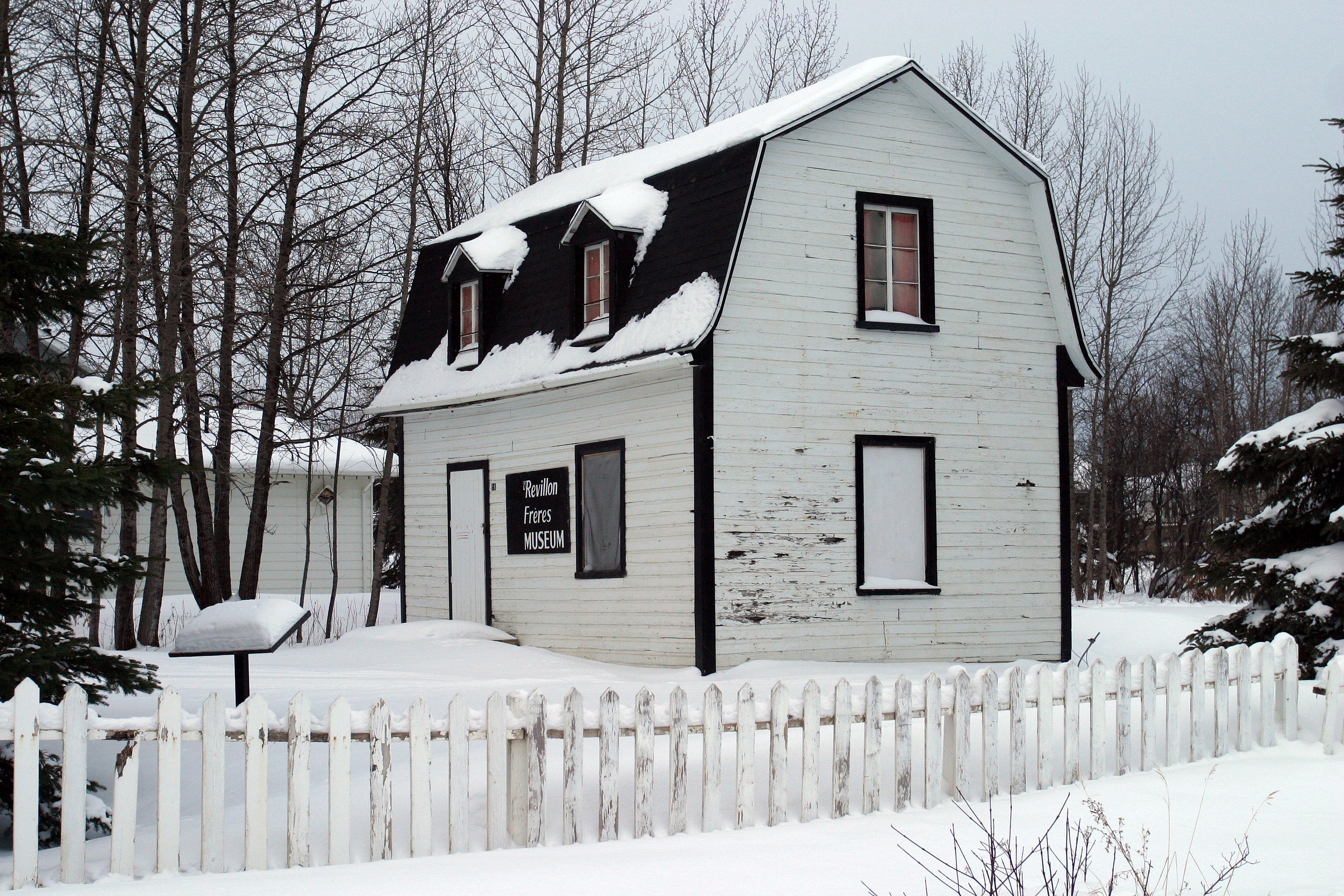 Revillon Freres museum in Moosonee taken 2005 January 9th. The museum, formerly open for the summer tourist season, has been closed for several years. The windows are now boarded up.